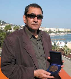 Samir Faris is a renowned Egyptian film critic. This is a picture of him holding one of his prizes.